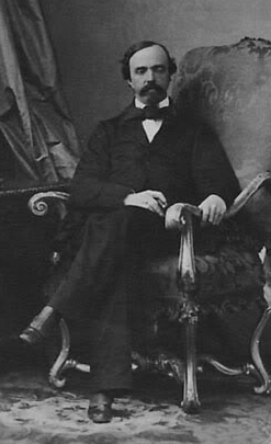 Infante Carlos of Spain, Count of Montemolin (Carlos VI)